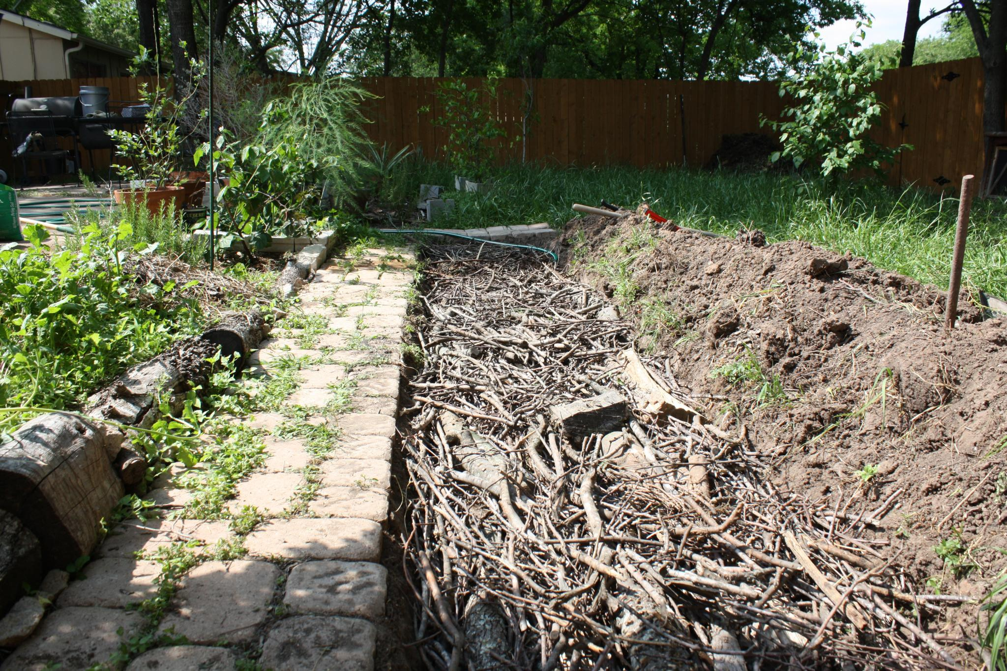 Almost done with the last (and largest) hügelkultur bed. Almost completed hügelkultur bed laid into the ground.